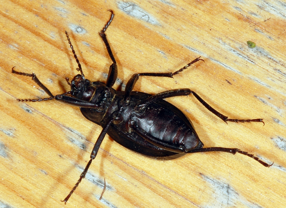 Blaps mortisaga, Nied, Frankfurt/Main, Germany